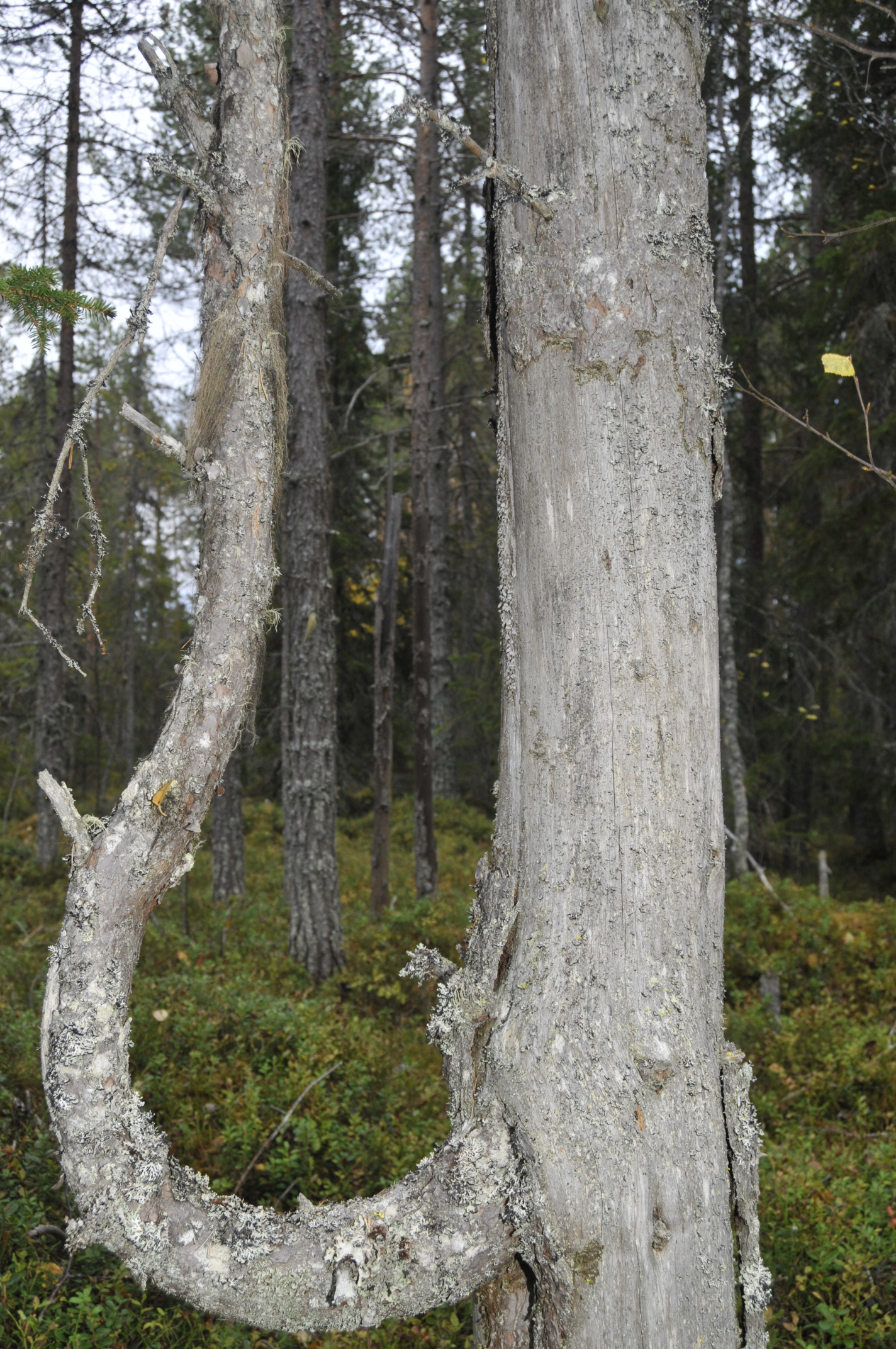 Rödmyrmyrens nature reserve Jämtland, Sweden